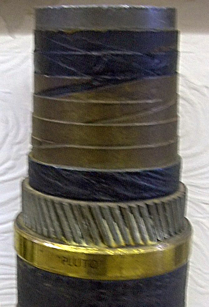 Operation PLUTO A section of HAIS pipe with the layers successively stripped back. This was one of the types of pipe used for PLUTO.